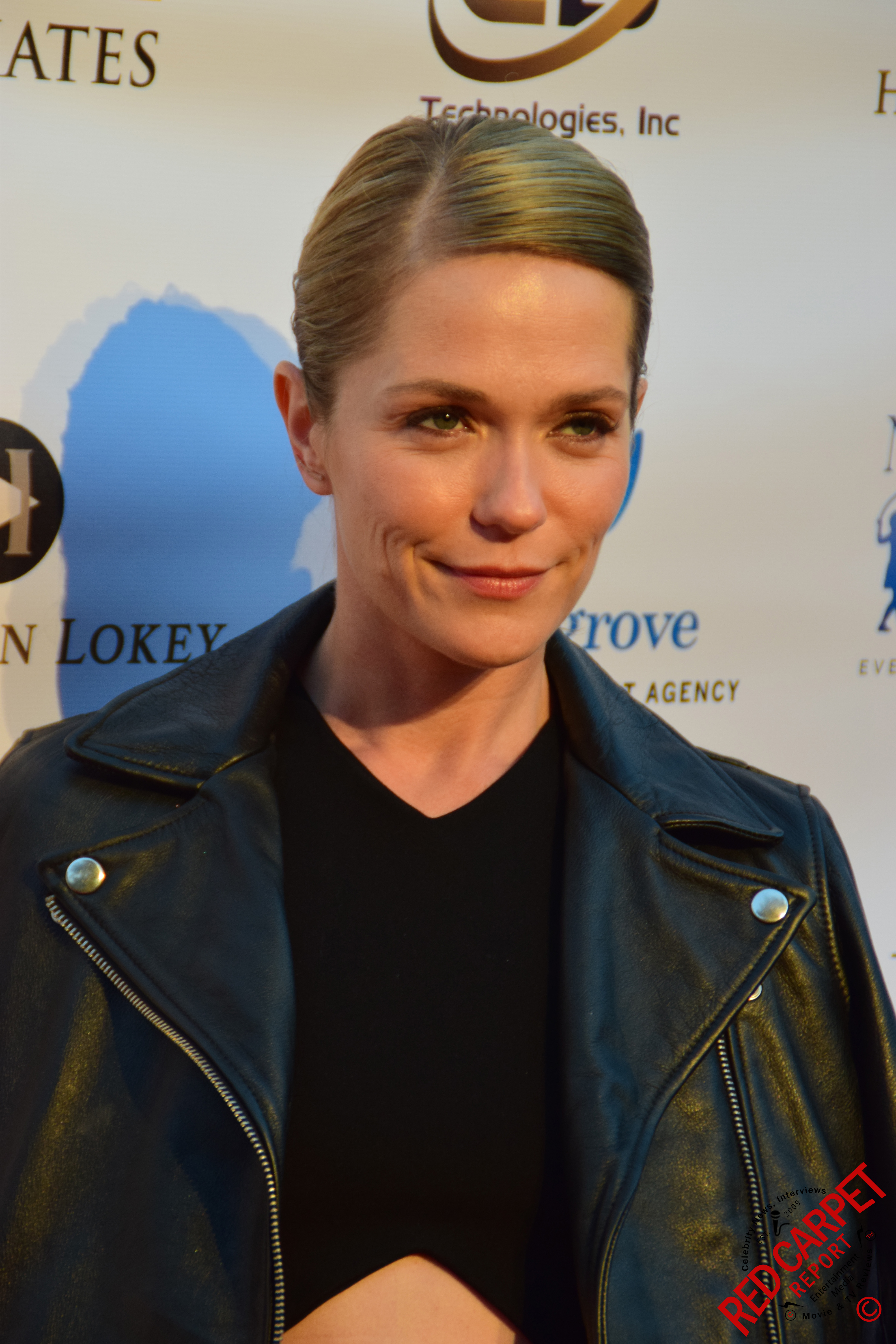 Katie Aselton at the 4th Annual Norma Jean Gala